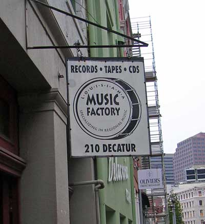 The sign of Louisiana Music Factory, New Orleans, LA